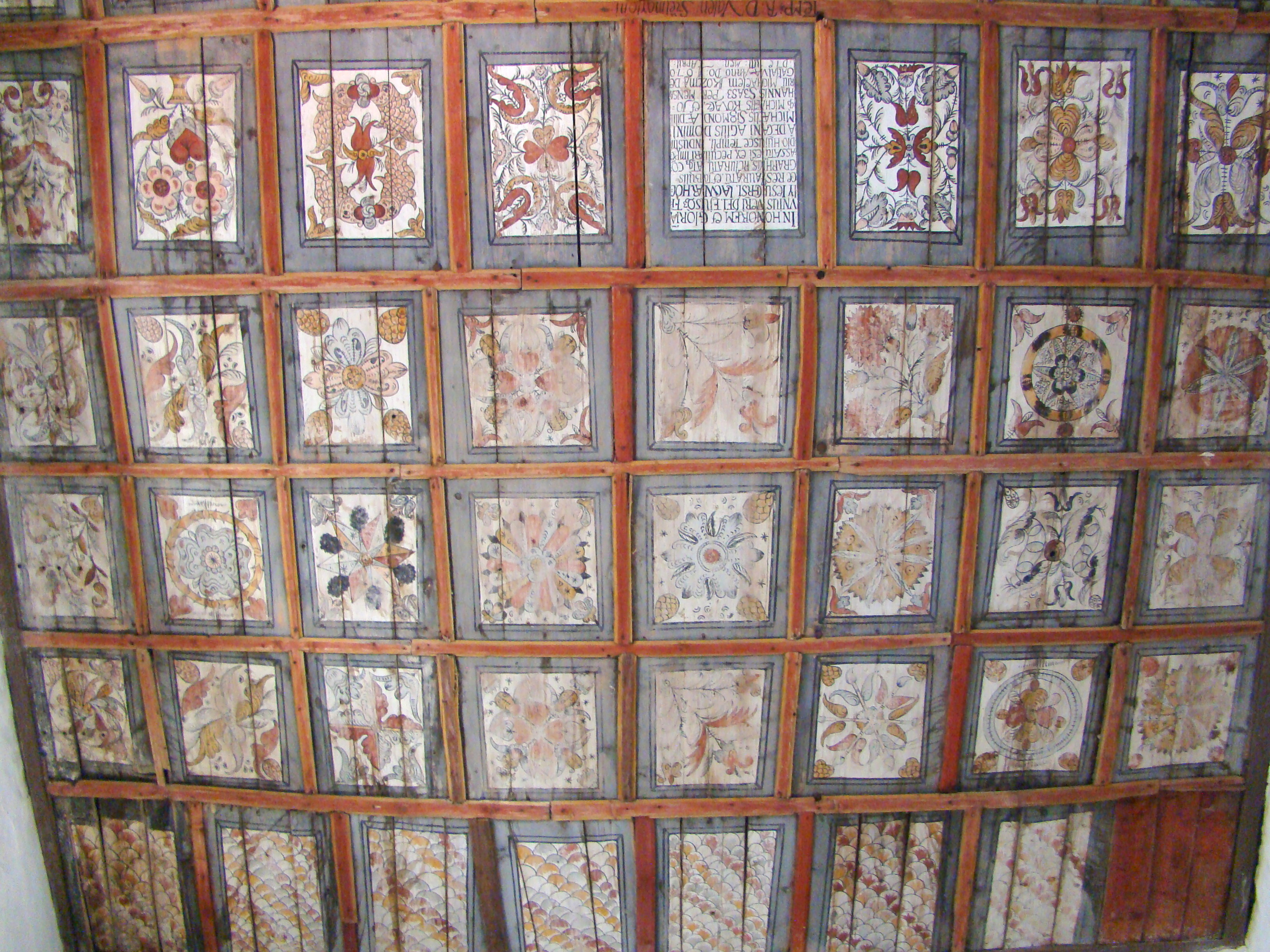 Unitarian church in Gălățeni, Mureş county, Romania